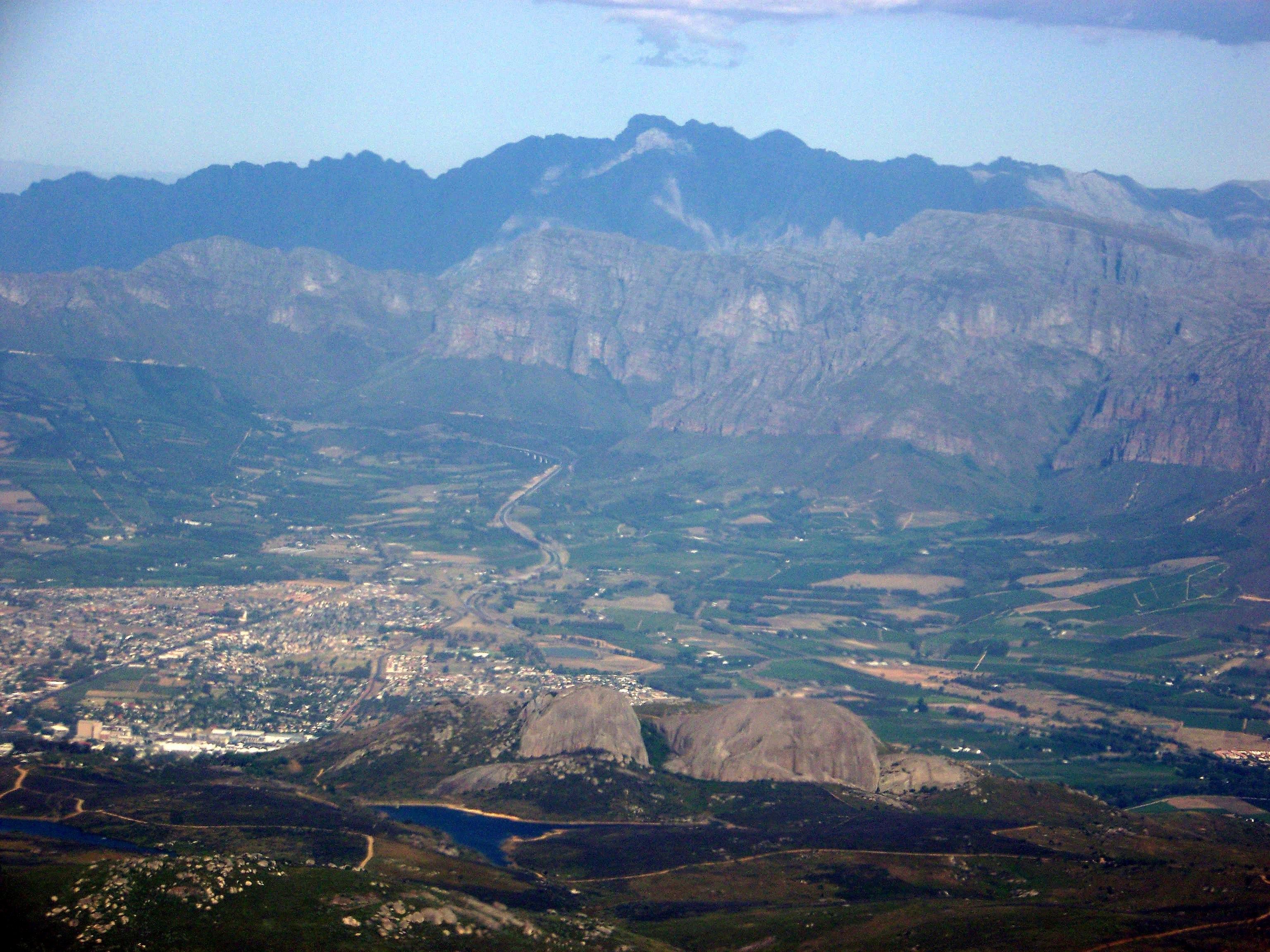 Paarl Rock in foreground, town of Paarl behind it, with Du Toit's Peak in background